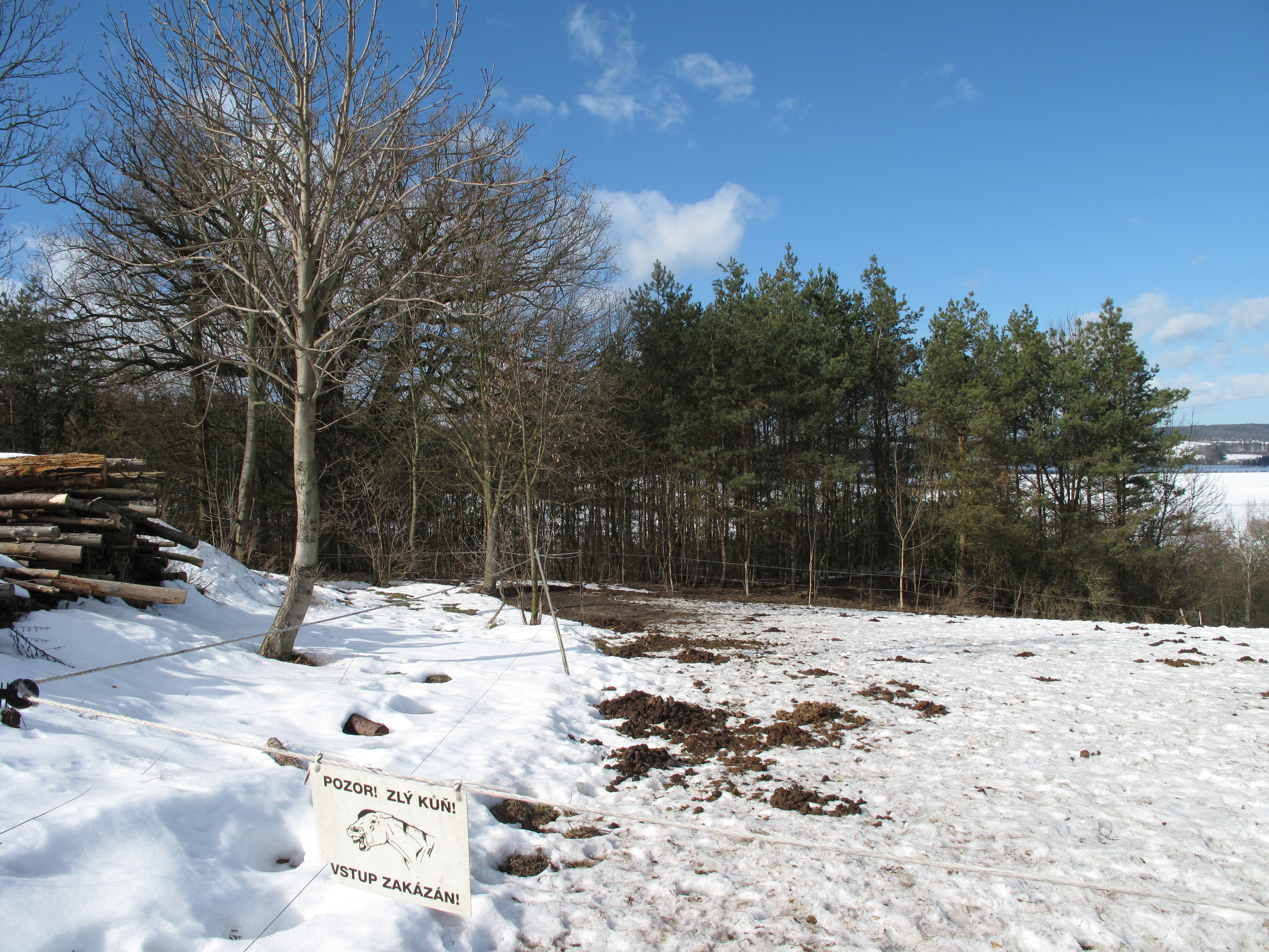 Part of the former castle in Hradové Střimelice village (Stříbrná Skalice municipality), Prague-East District, Czech Republic. This photograph was taken within the scope of the 'Czech Municipalities Photographs' grant.